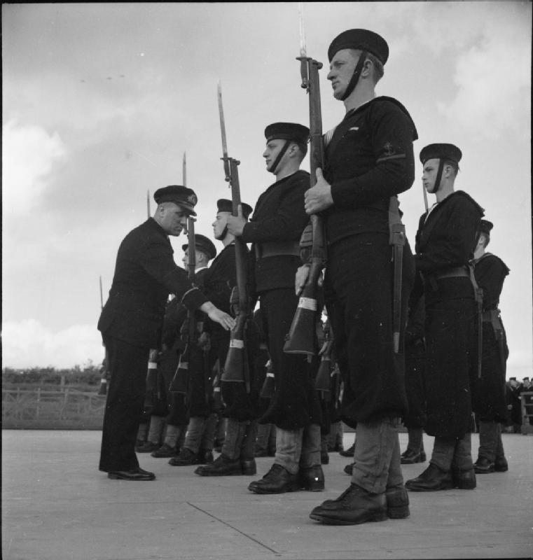 Belgian Sailors at a Skegness Training Camp- Belgian Naval Training at Butlin's, Skegness, Lincolnshire, England, UK, 1945 Belgian sailors take part in gun drill at HMS ROYAL ARTHUR in Skegness. The training camp was once the Butlin's holiday camp, and the drill is taking place on what was once the skating rink. The men are drilling with their bayonets fixed to their rifles.